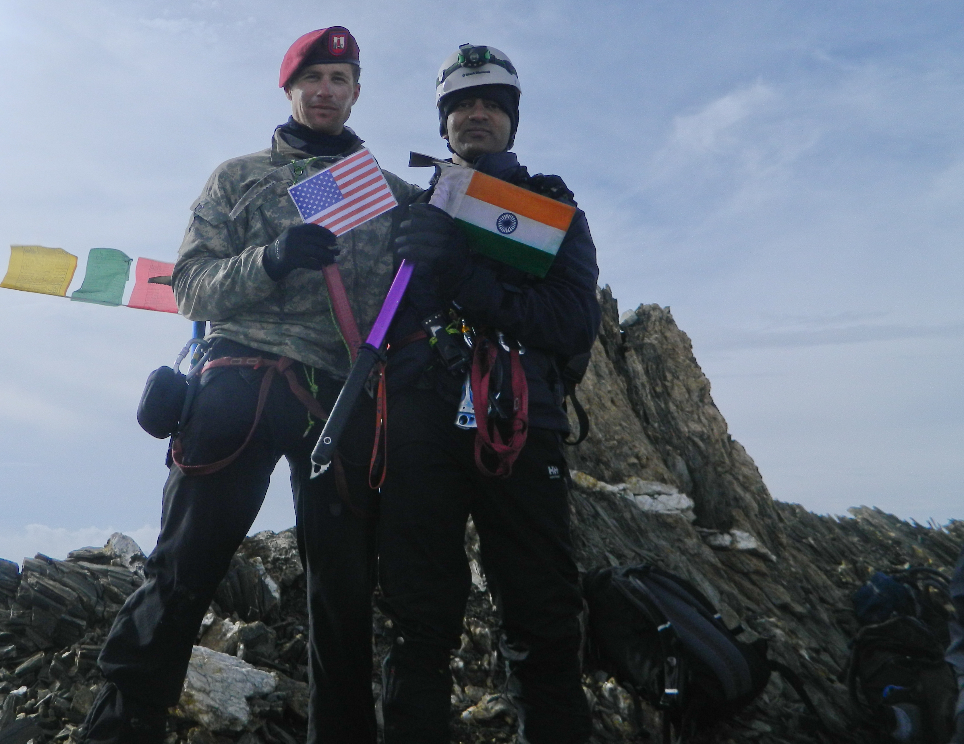 U.S. Army Capt. Mathew Hickey (left), with the 2nd Battalion, 377th Parachute Field Artillery Regiment, 4th Infantry Brigade Combat Team (Airborne), 25th Infantry Division, hailing from St. Paul, Minn., and Indian Army Maj. Sanat Kumar, pause for a photo after reaching the summit of Machoi Peak July 7, 2013 in the state of Jammu and Kashmir, India. Hickey and Kumar were there for training at the Indian Army's High Altitude Warfare School.